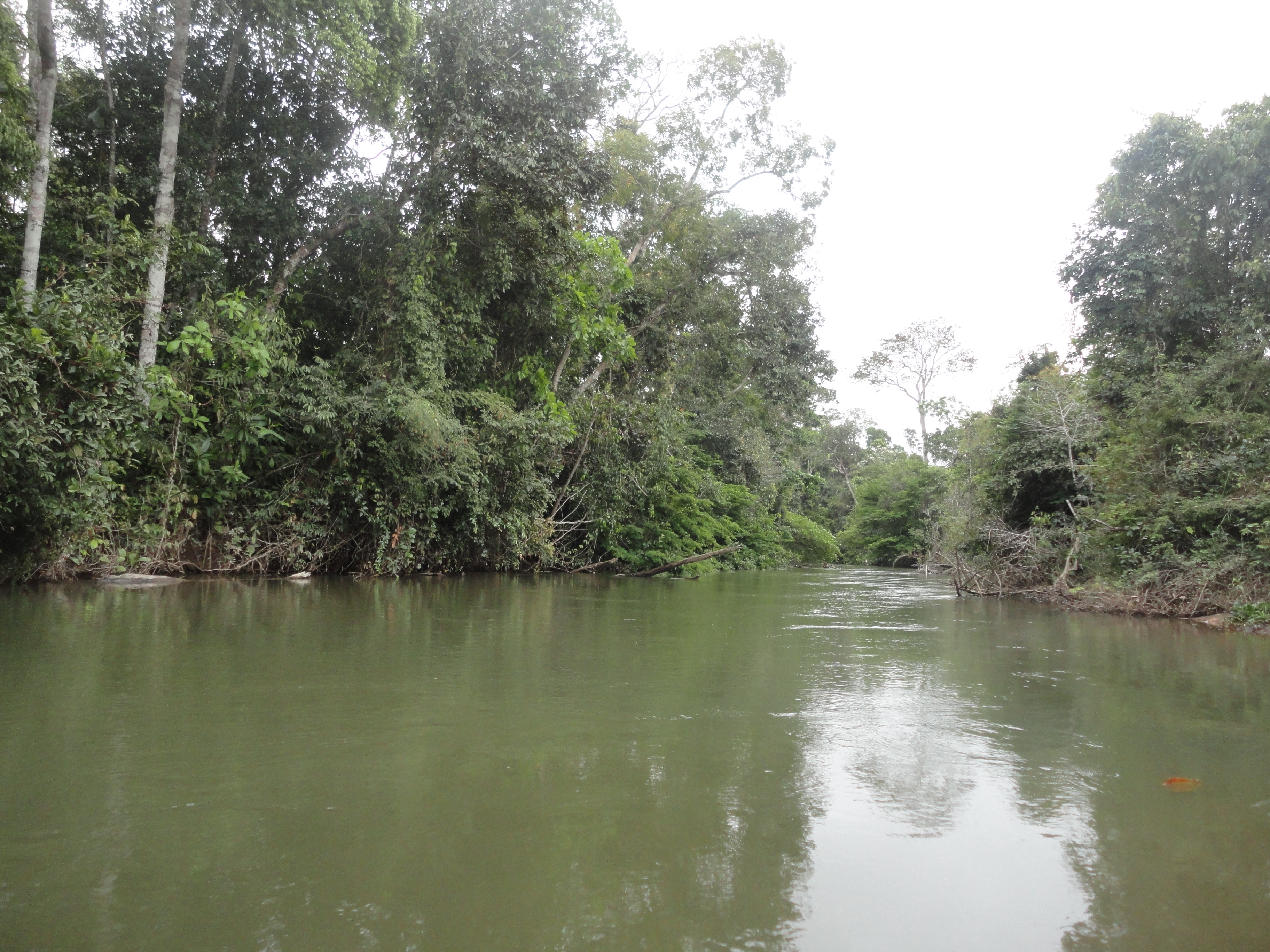 Rio Margarida